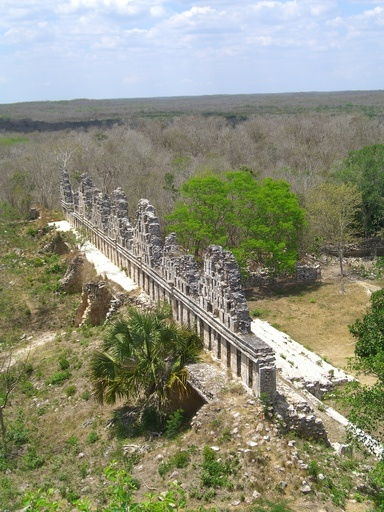 House of the pigeons at Uxmal, Yucatán. View from the great pyramid.